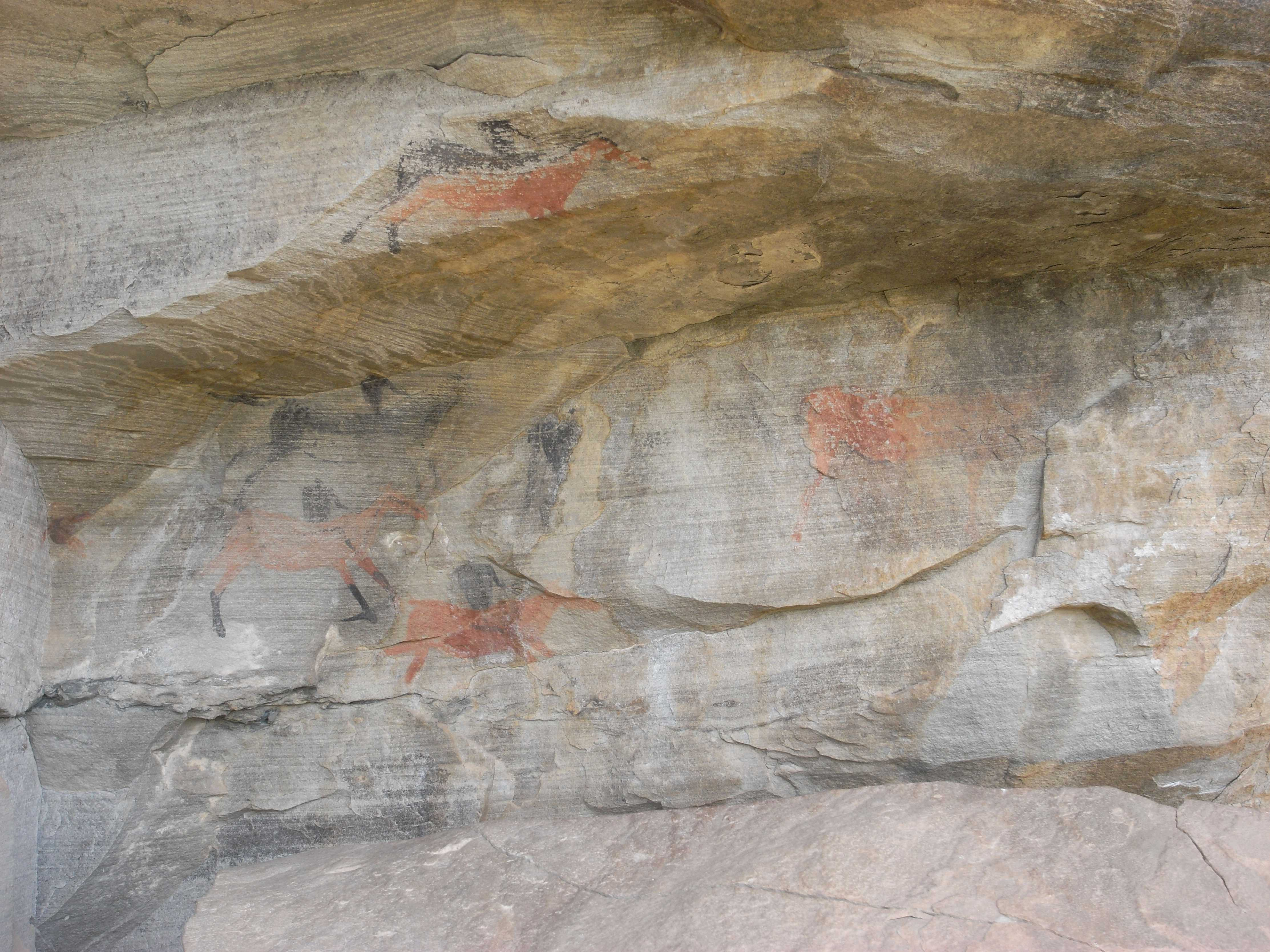 sandstone with bushmen rock paintings / Karoo System (Amathole Mountains, South Africa)